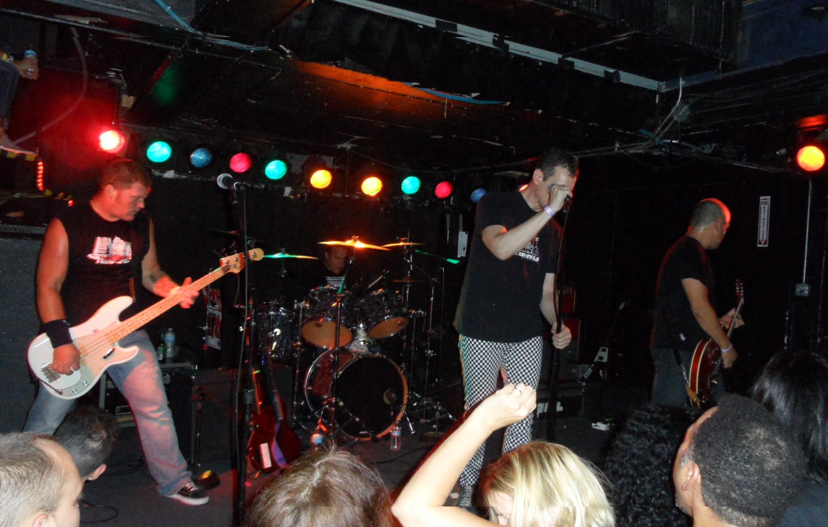 Naked Raygun performing at Subterranean in Chicago as part of Riot Fest.